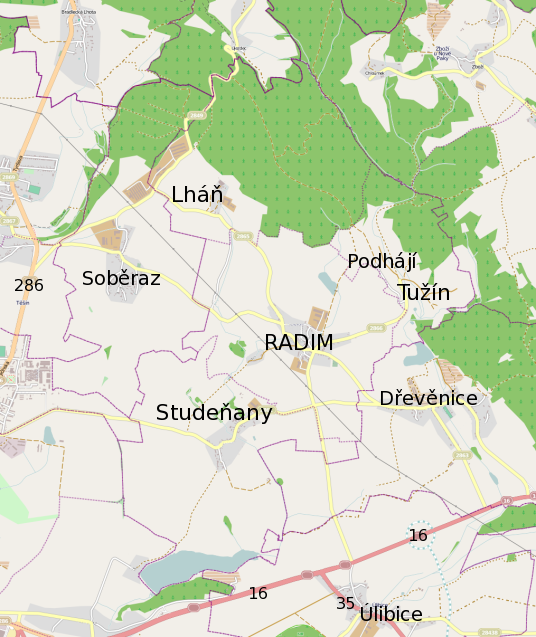 Map of Radim, Jičín district, Czech Republic This map of Map of Radim, Jičín district, Czech Republic was created from OpenStreetMap project data, collected by the community. This map may be incomplete, and may contain errors. Don't rely solely on it for navigation.